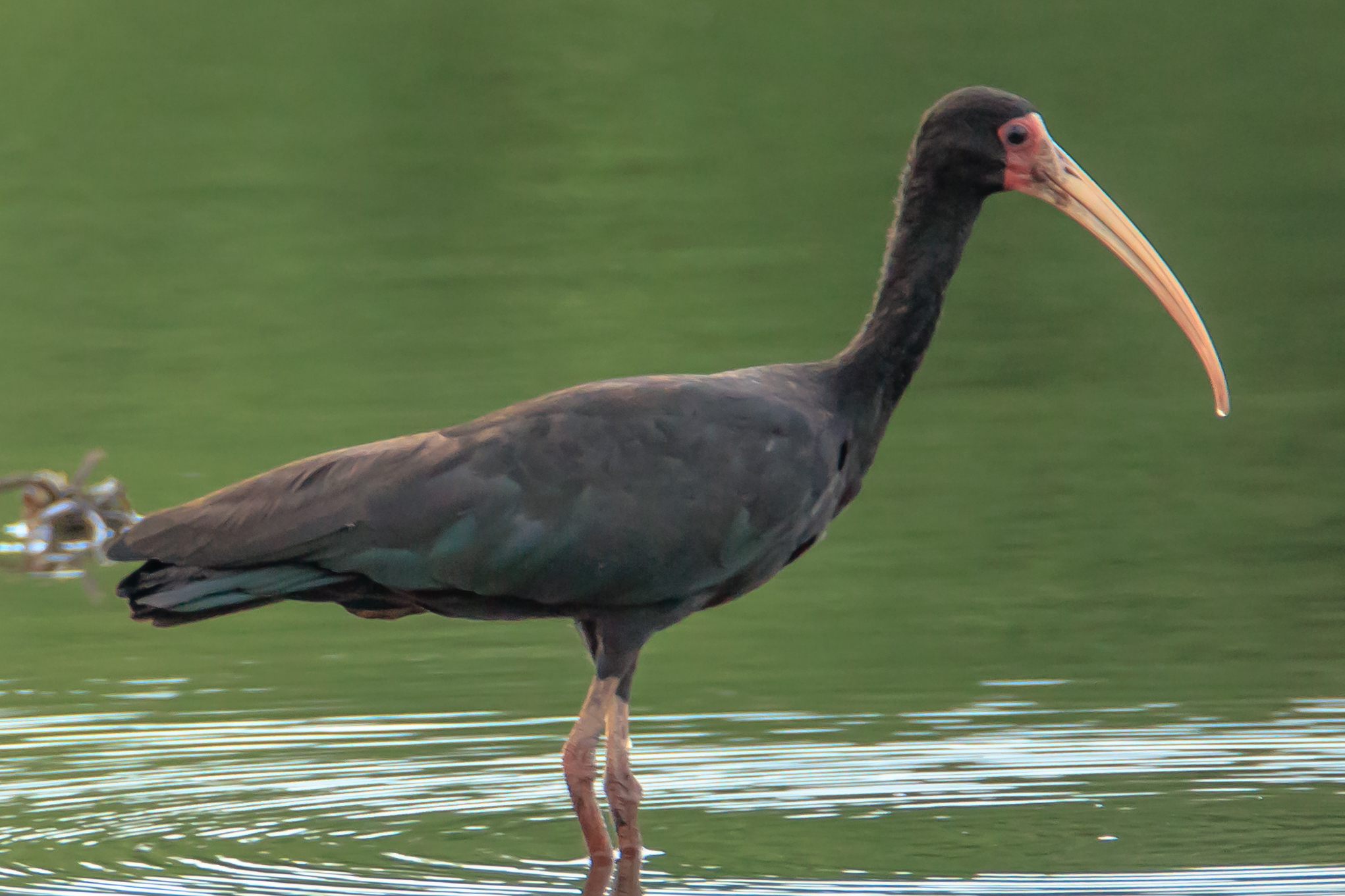 at Possa da Londra in the Brazilian Patanal (105m)...Bare-Faced Ibis (Phimosus infuscatus)...